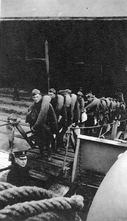 USS Kroonland (ID # 1541) Troops come aboard the ship for transportation home, at St. Nazaire, France, 11 March 1919. U.S. Naval Historical Center Photograph.